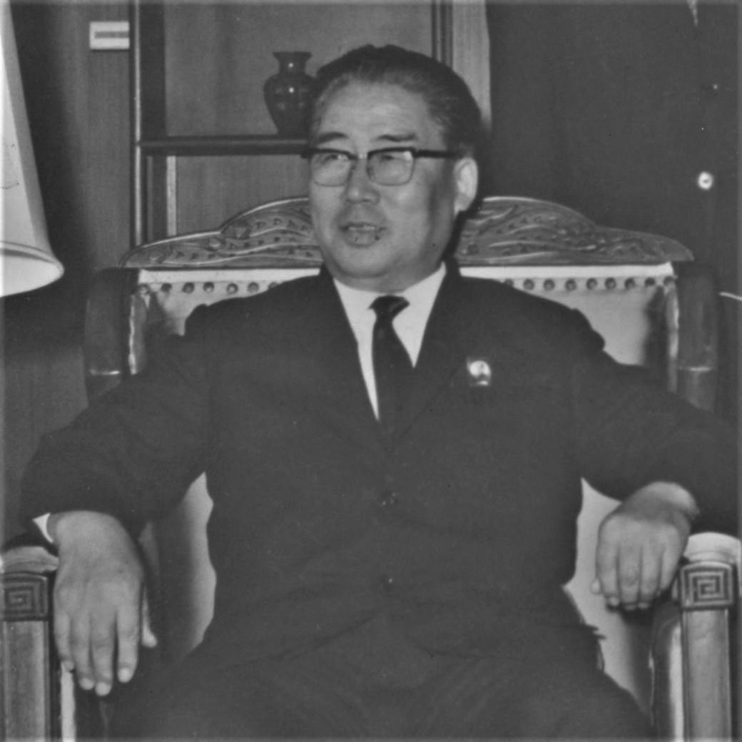 Cropped version of this image.